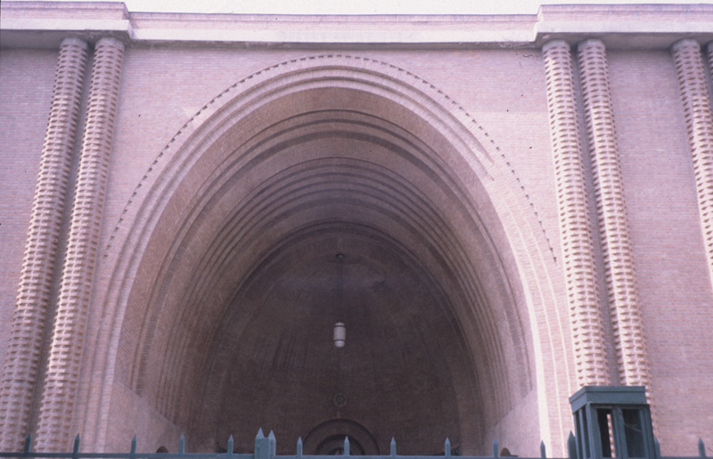 Iwan of National museum of Iran, Tehran